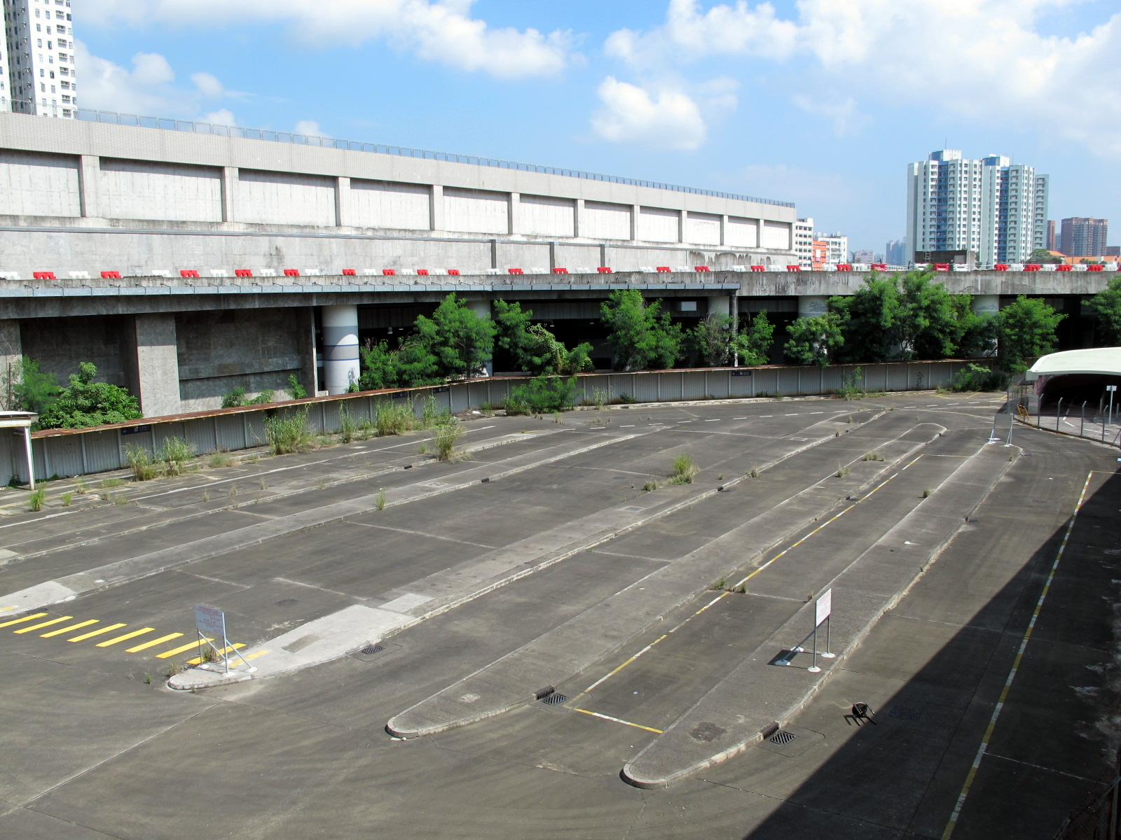 Tai Wai Station Site in 2005. Former bus terminus